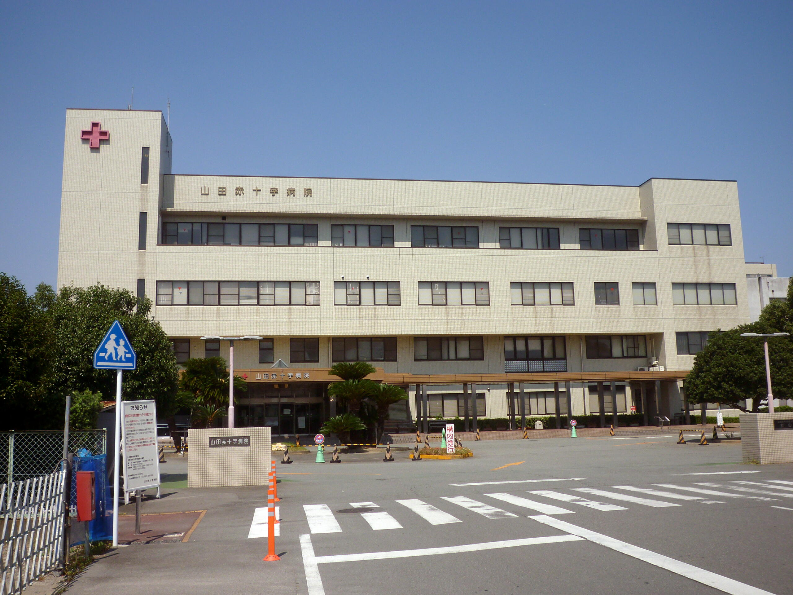 The "Yamada Red Cross Hospital in Misono-chō-takabuku Ise, Mie, Japan.It is scheduled to move in 2011.